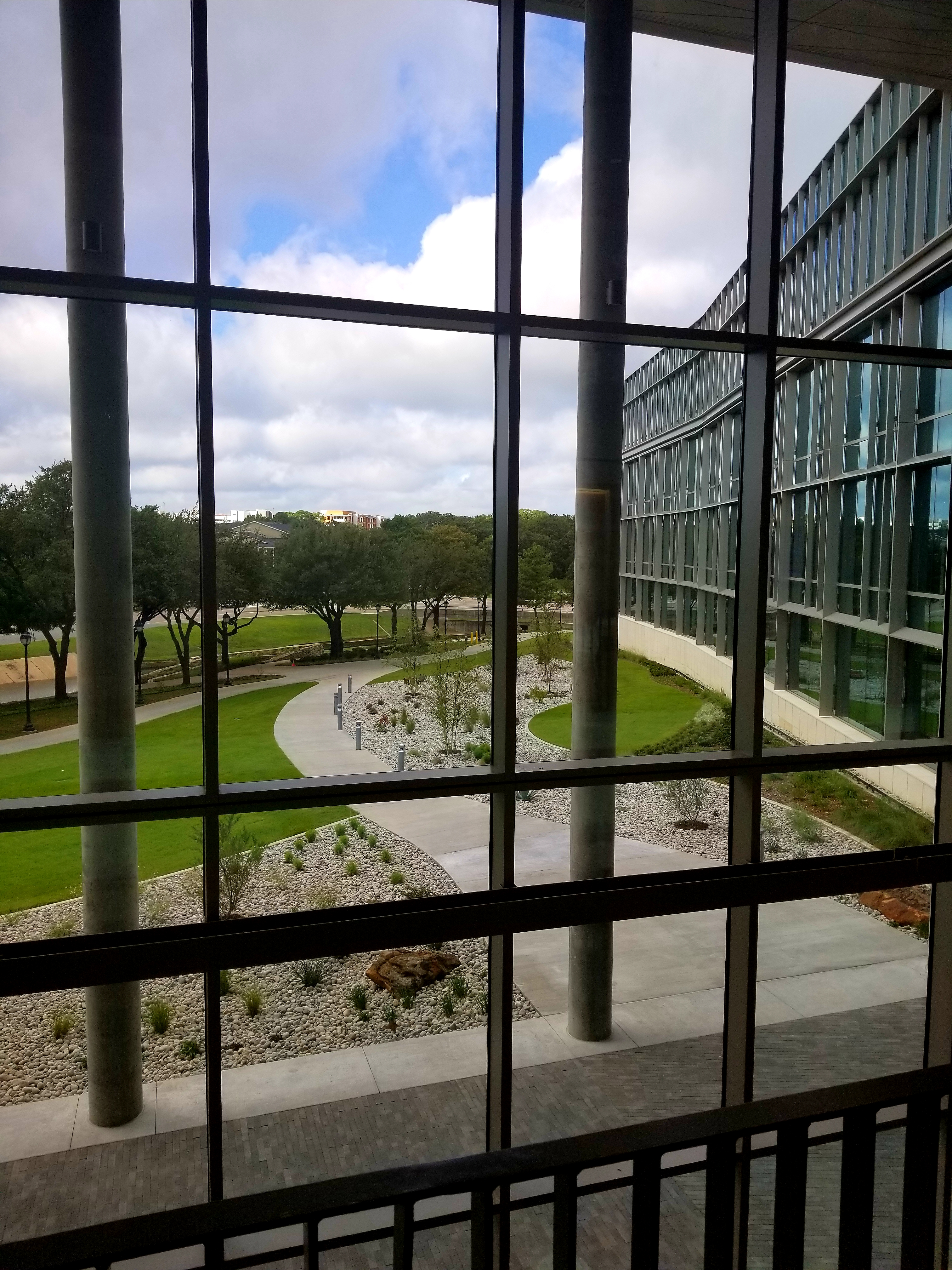 Inside on the second floor of the SEIR Building